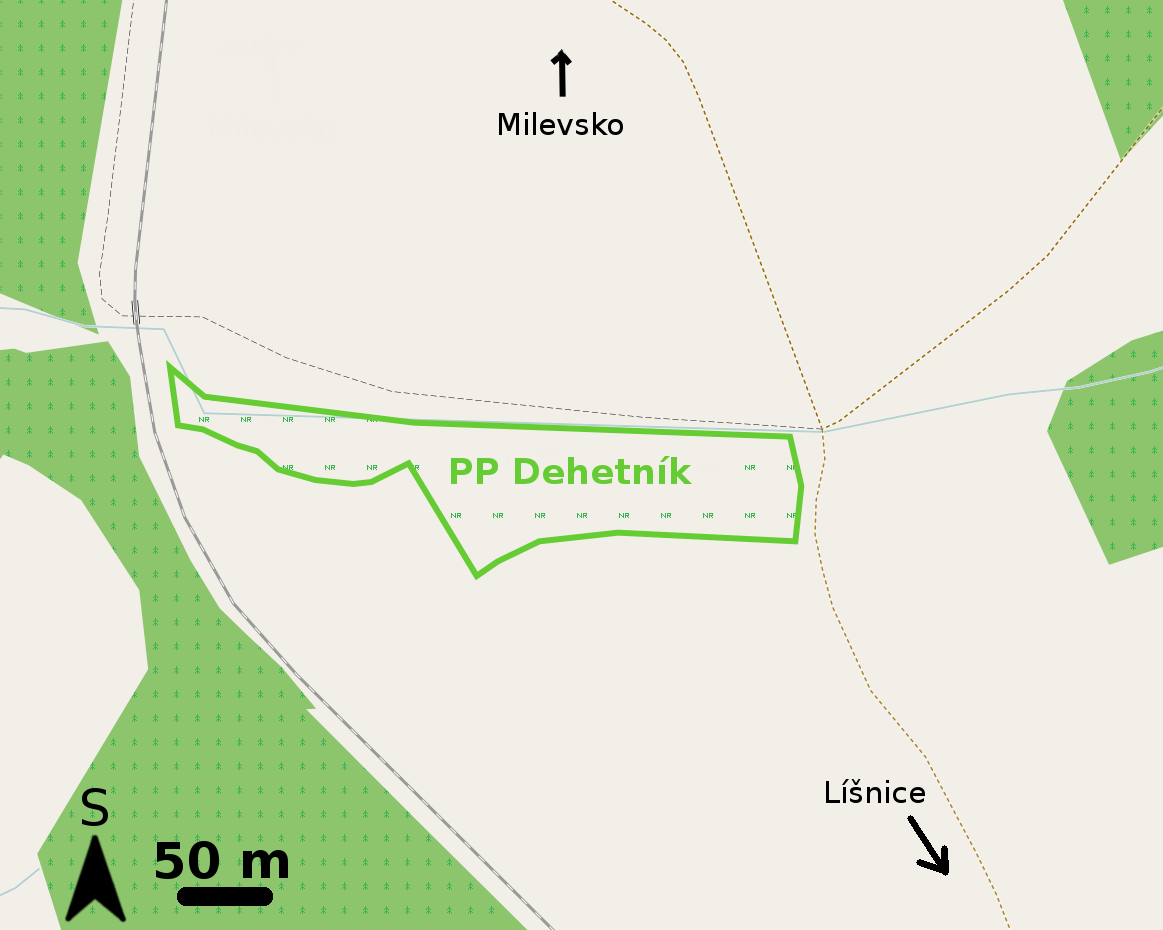 Map of natural monument Dehetník in Písek District, Czech Republic